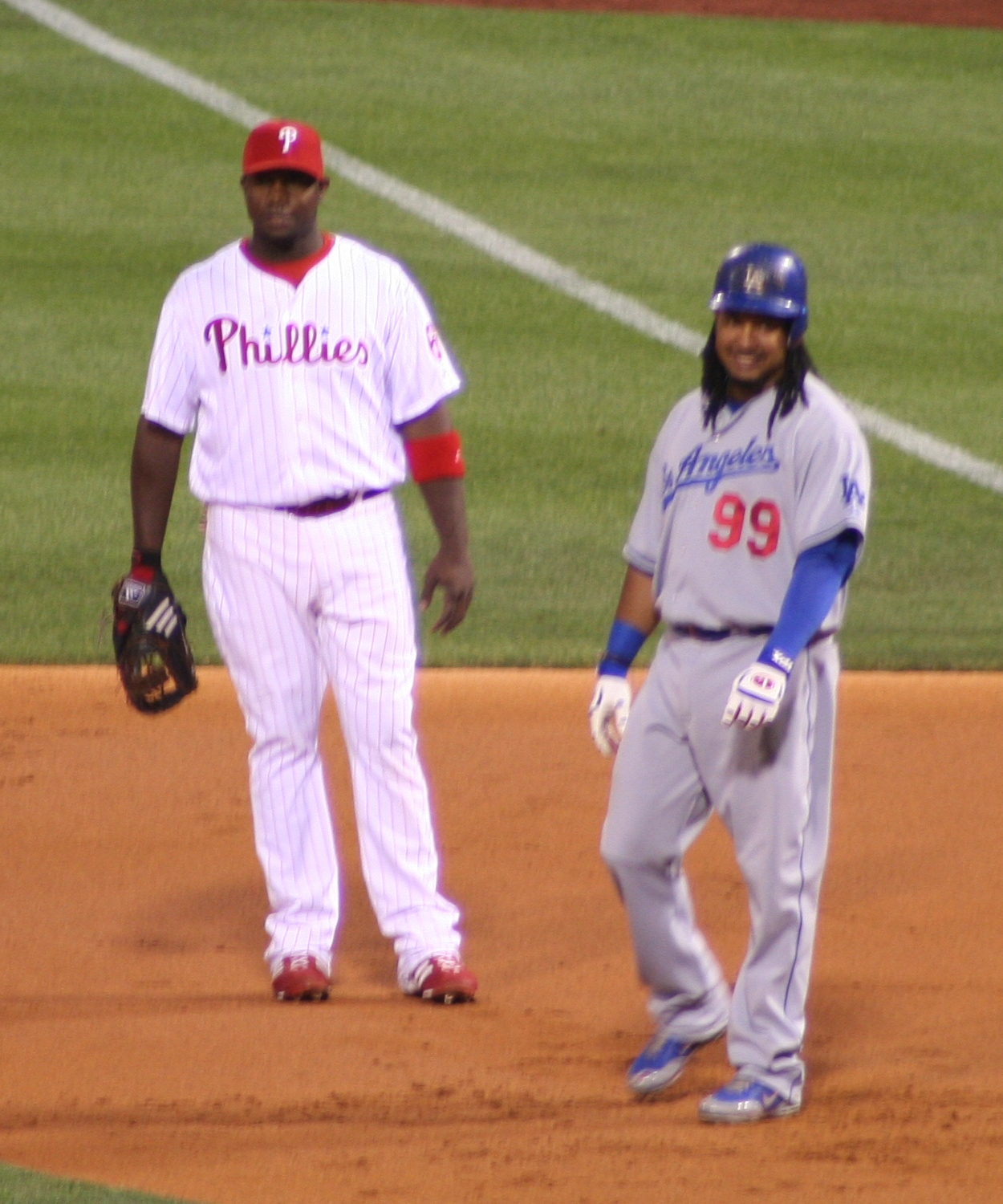 Ryan Howard (left) and Manny Ramirez